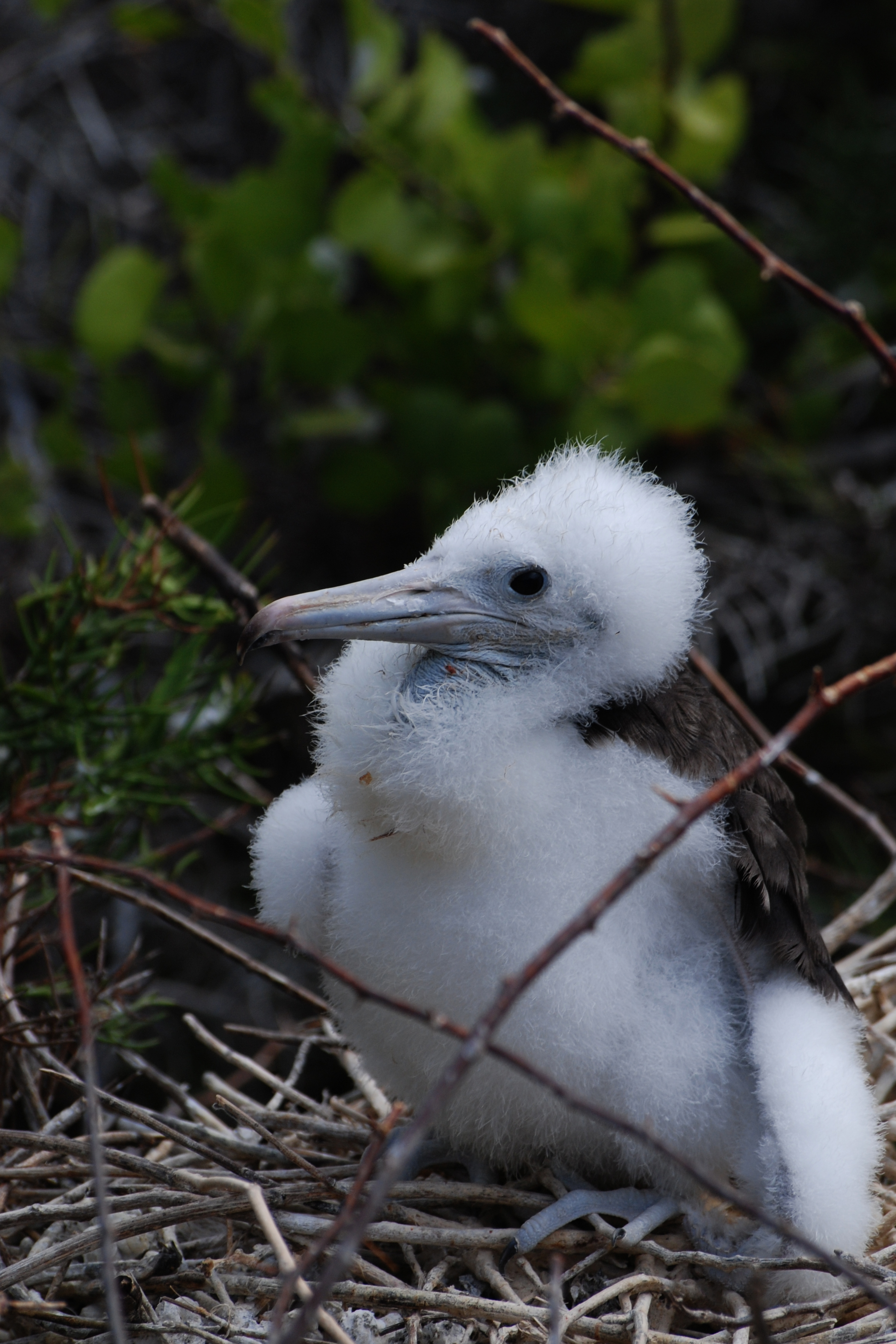 Magnificent Frigatebird (Fregata magnificens) chick in a nest on North Seymour Island, Galapagos Islands.